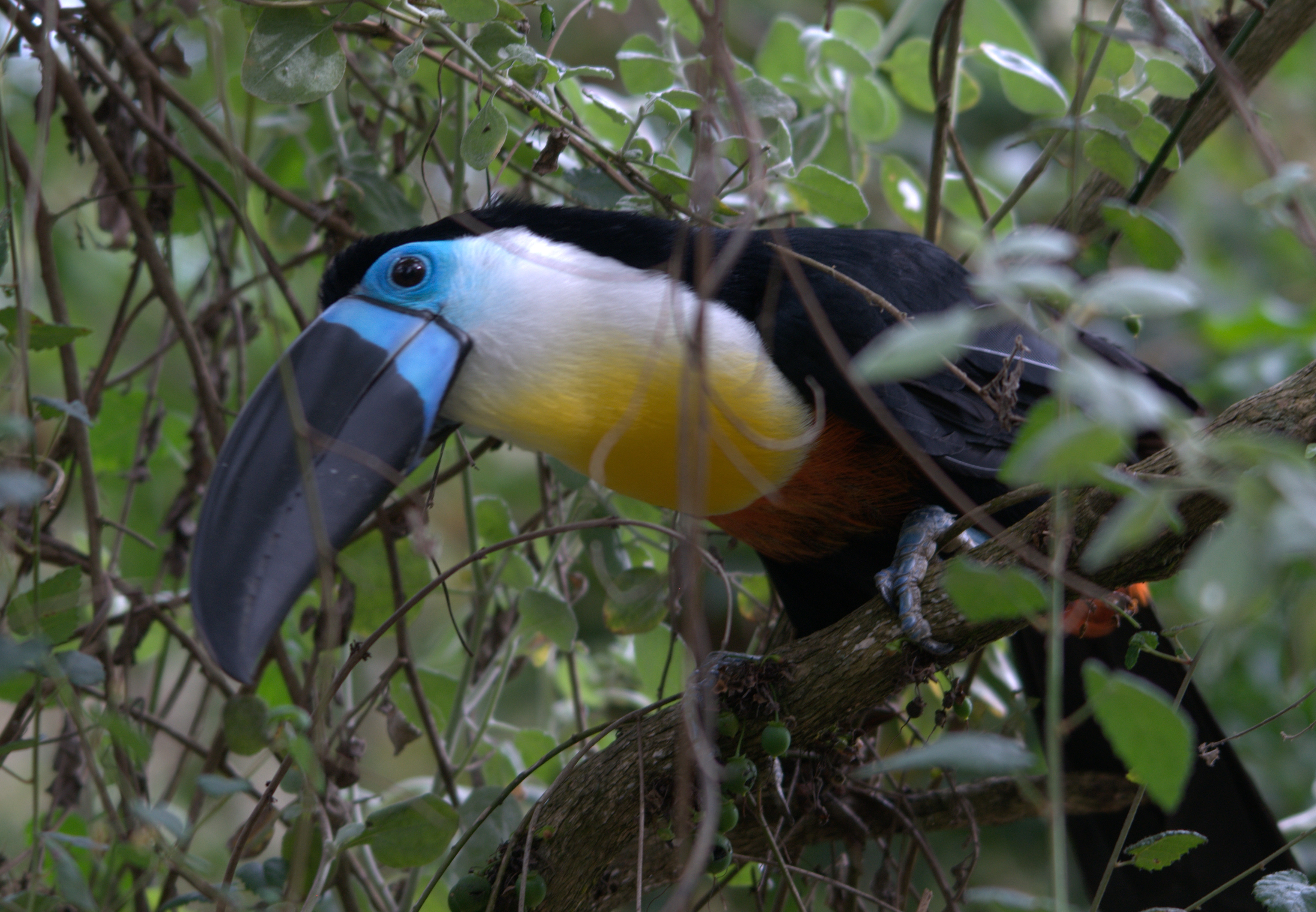 A Channel-billed Toucan at Birds of Eden, South Africa.